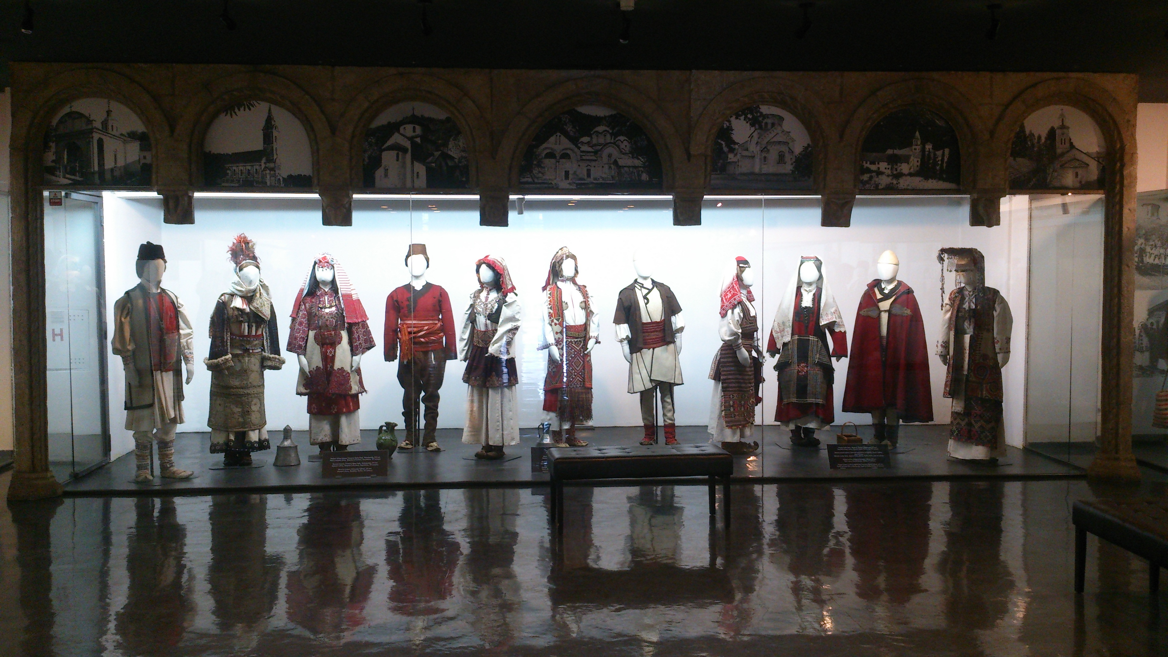 Ethnografic Museum in Belgrade, Serbia Srpski (latinica): Etnografski muzej u Beogradu